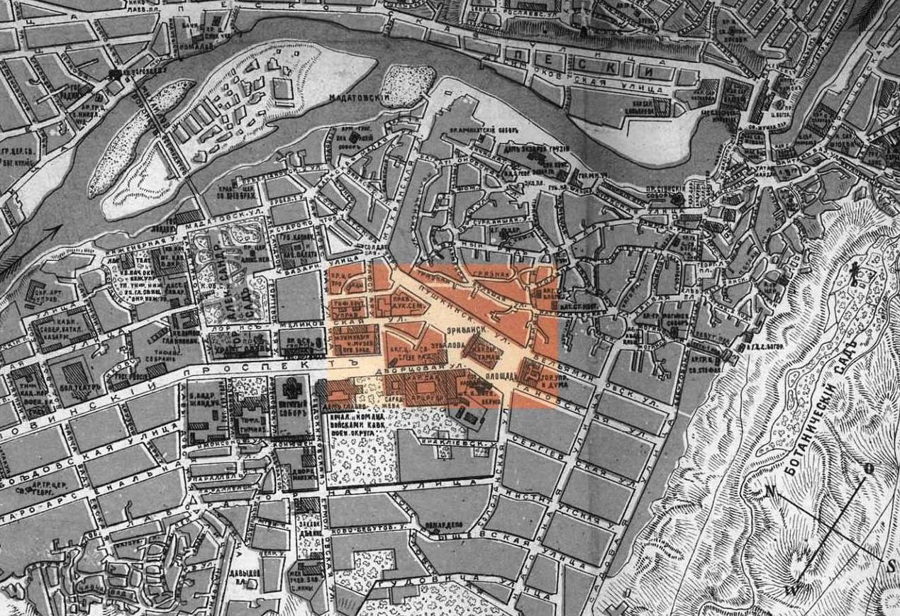 A fragment of the 1913 map of Tiflis showing Yerevansky Square and the adjacent streets